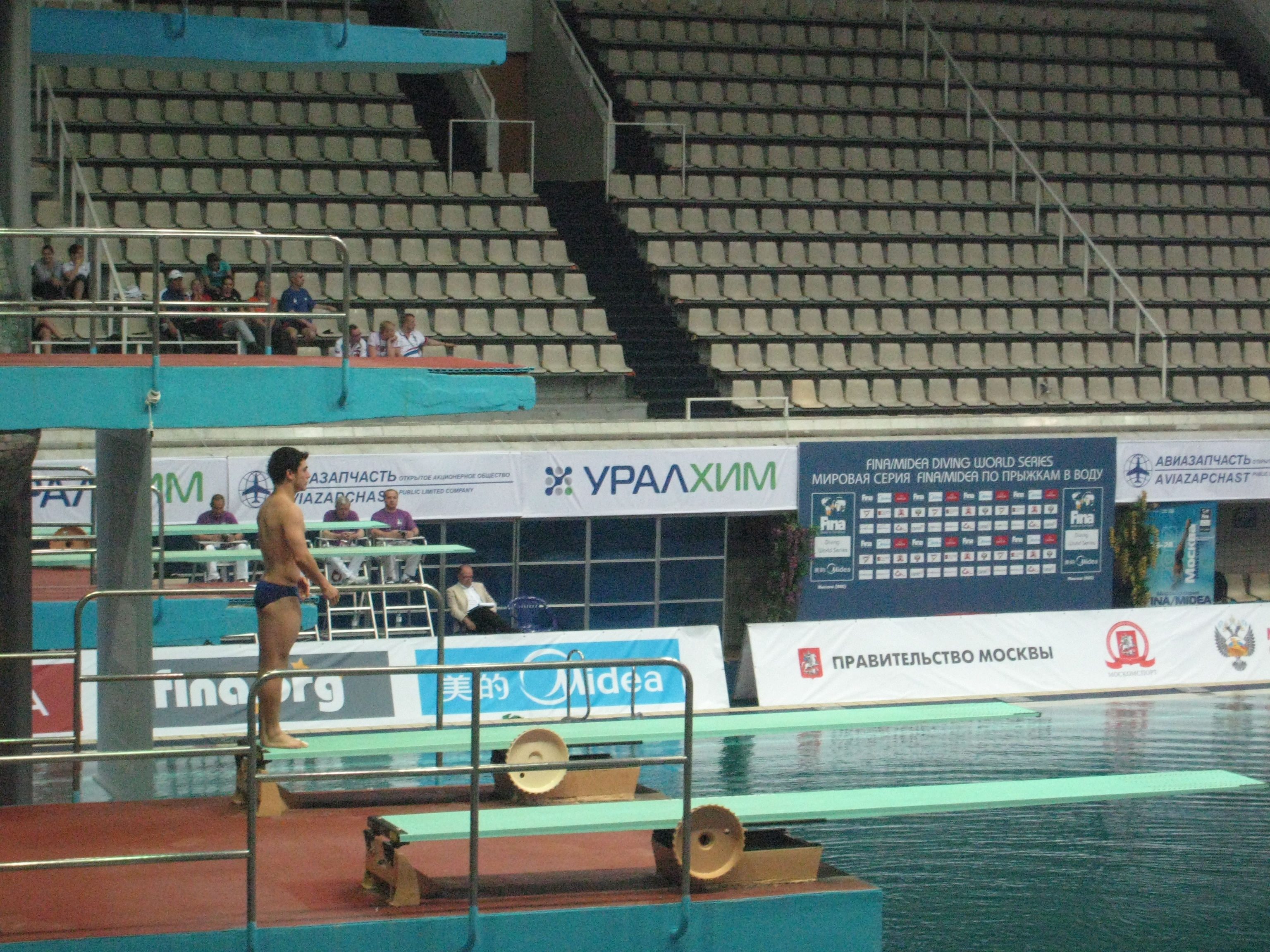 Second day of the 2013 FINA Diving World Series in Moscow. April 27, 2013.